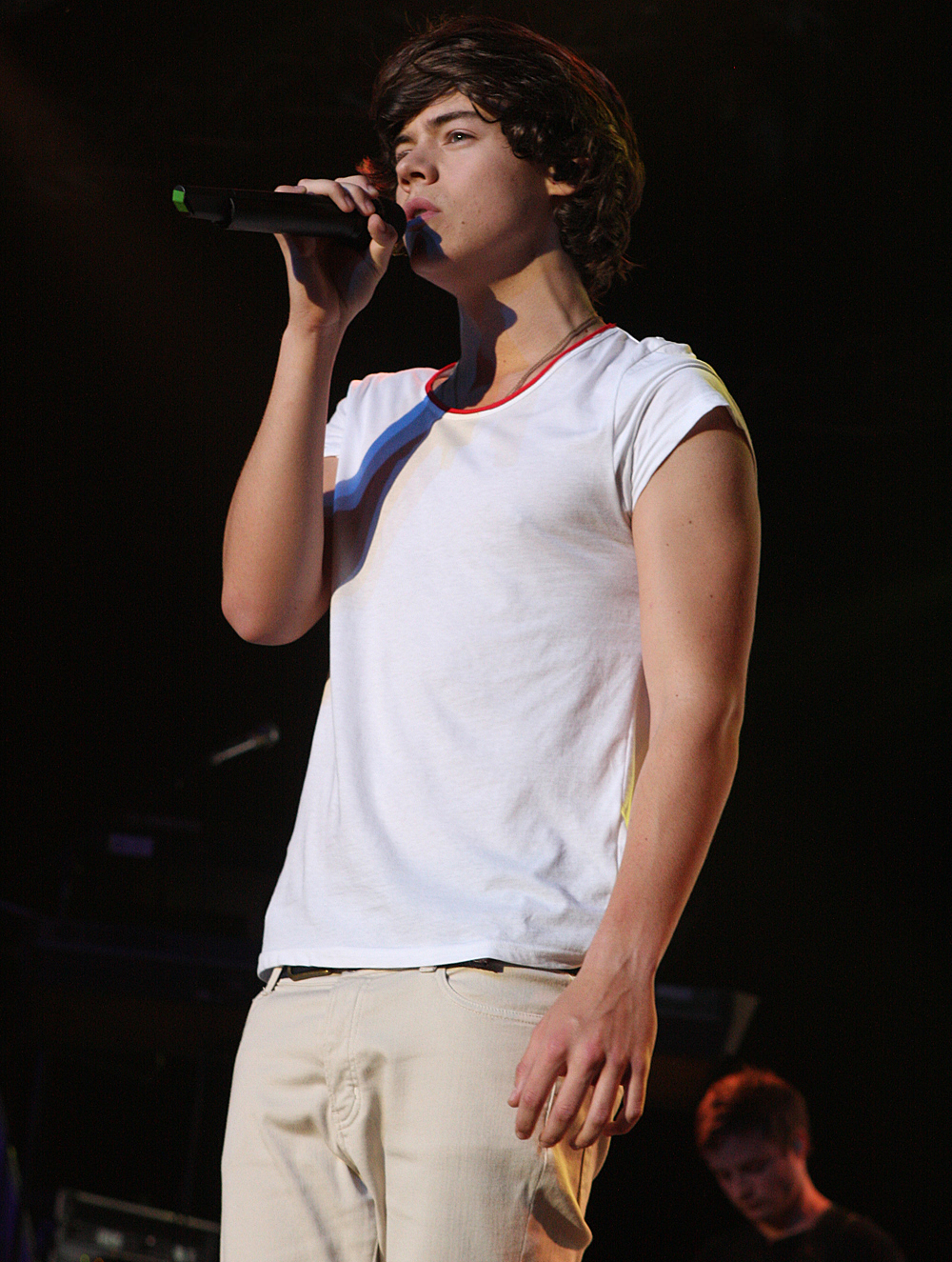 Harry Styles at the One Direction performs at Hordern Pavilion, Moore Park, Sydney, Australia 2012.